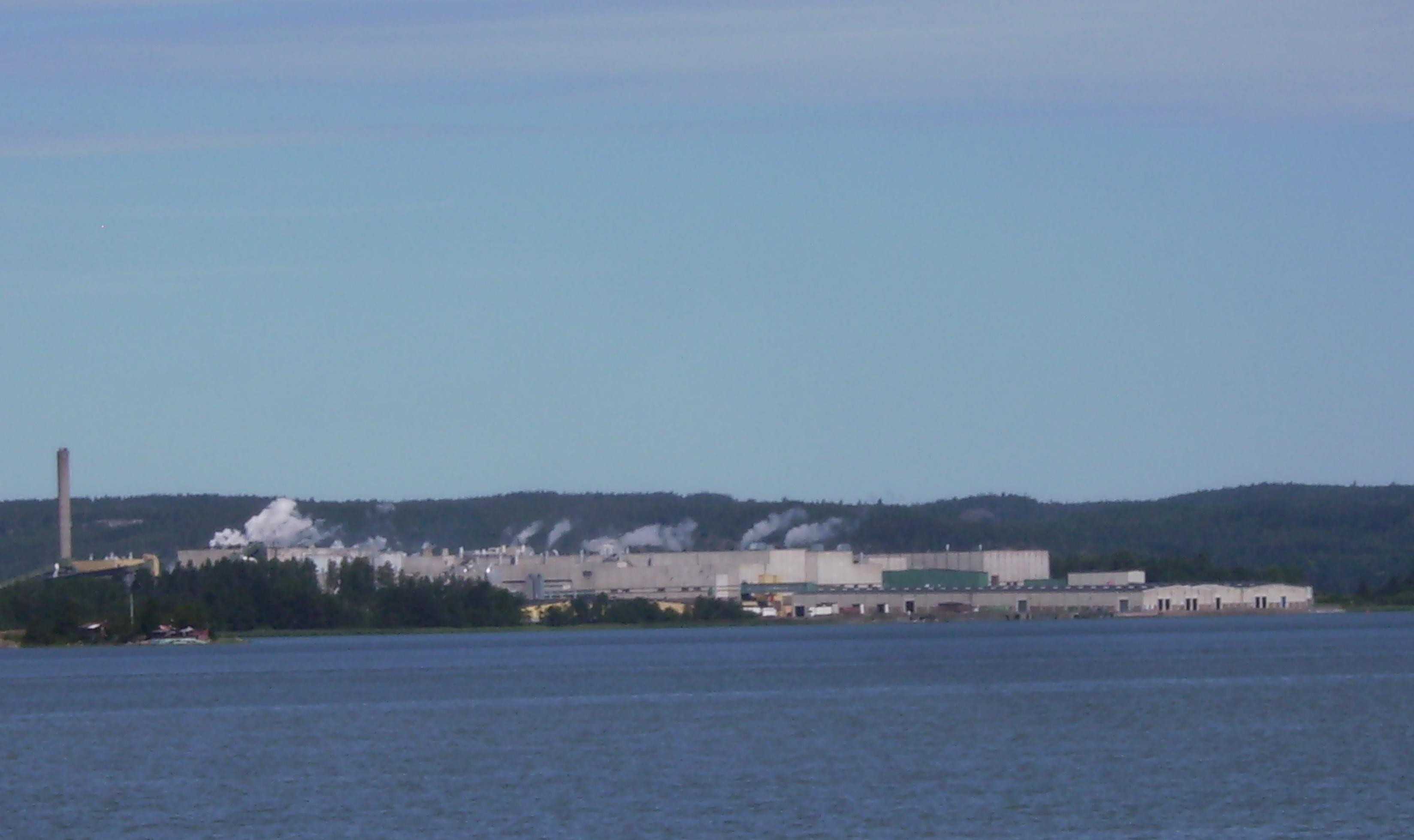 The harbour and factory area in Norrköping and the bay Bråviken.